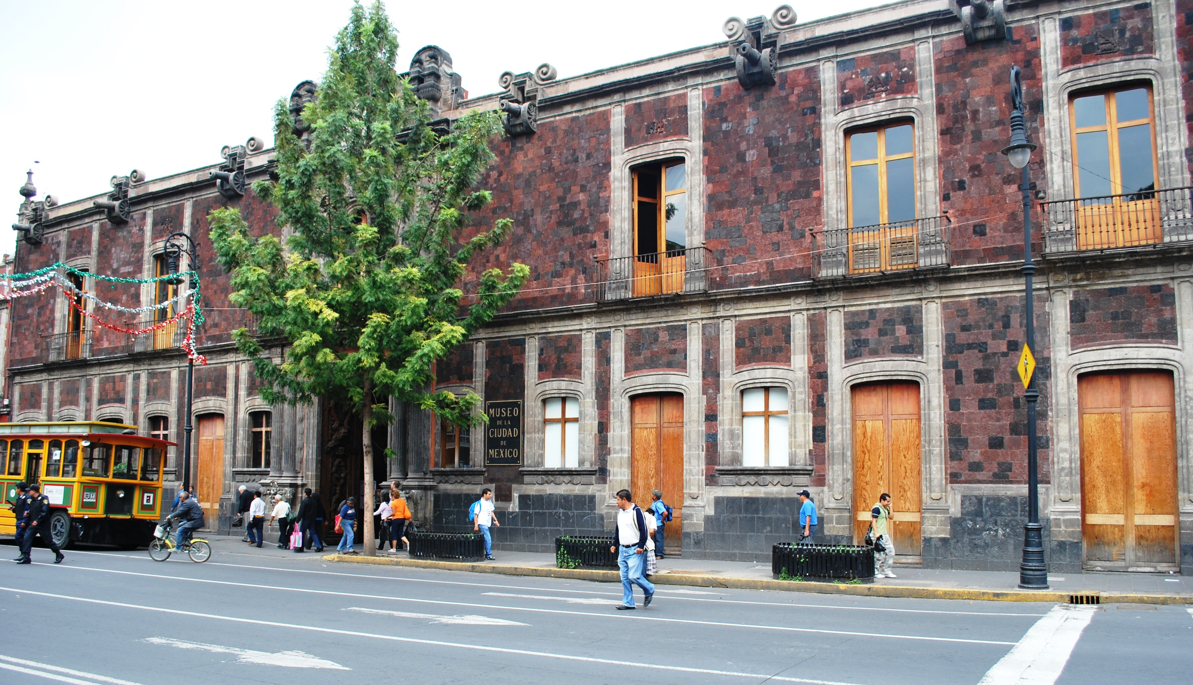 Facade on Pino Suarez Street of the Museum of the City of Mexico